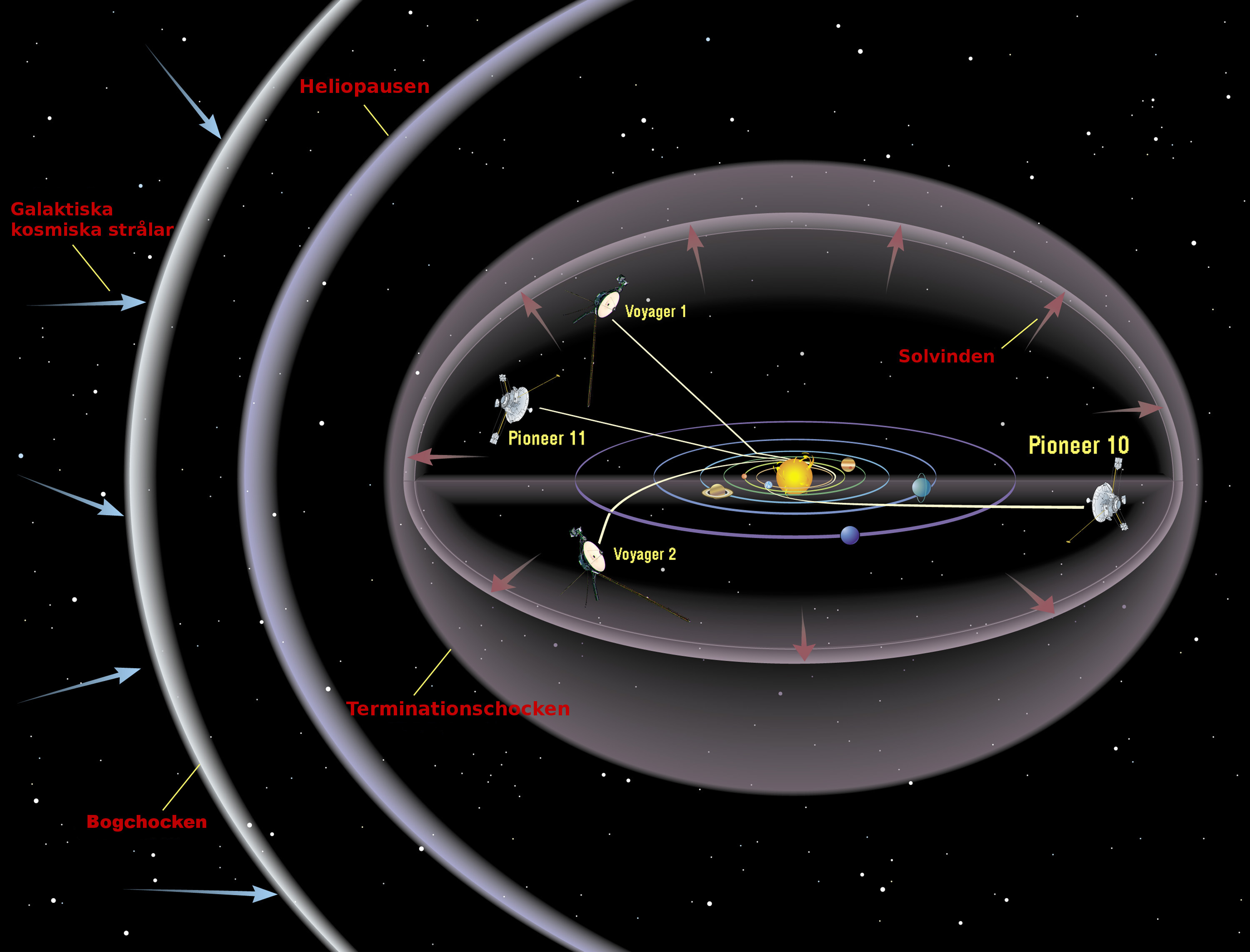 Heliosphere with Swedish text.